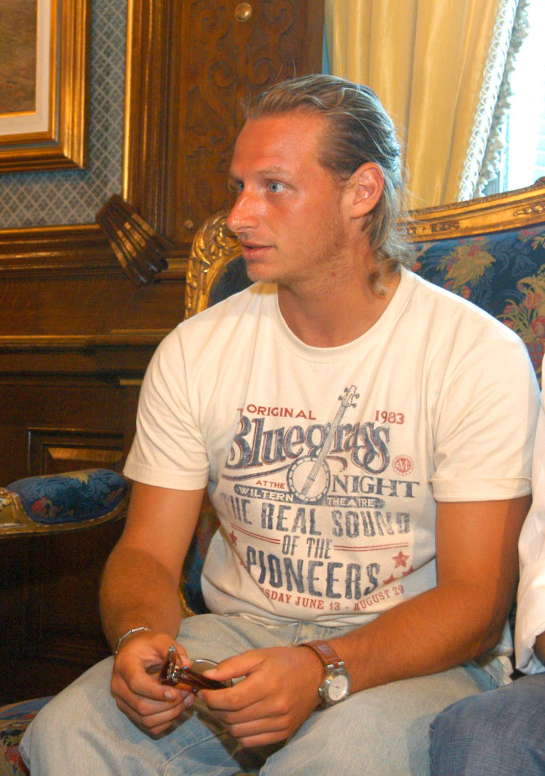 David Nalbandian and Kirchner meeting, Buenos Aires, Argentina, December 28th, 2005 oficial photo